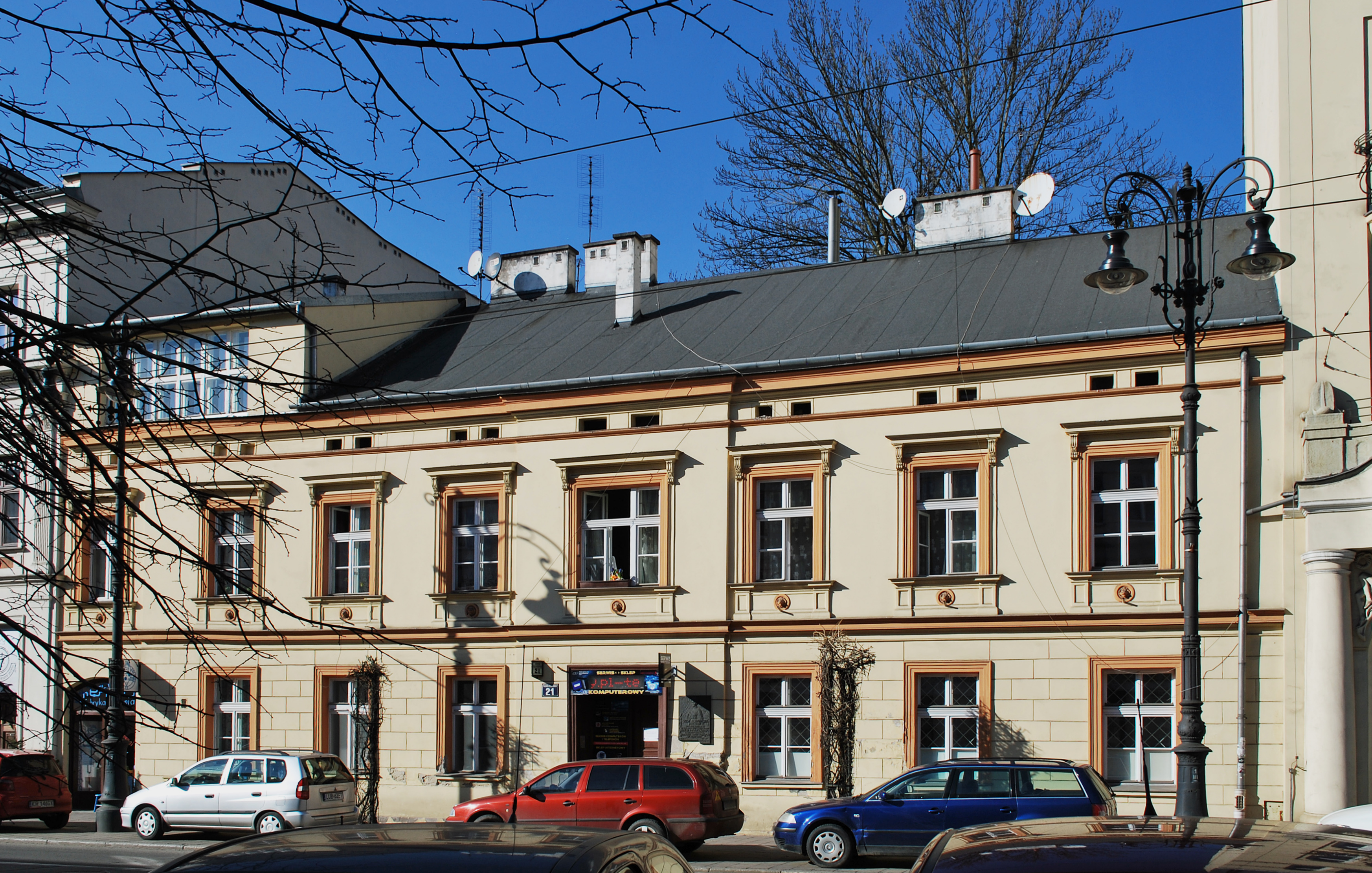 House of Olga Boznańska (Polish painter), 21 Piłsudskiego street, Krakow, Poland